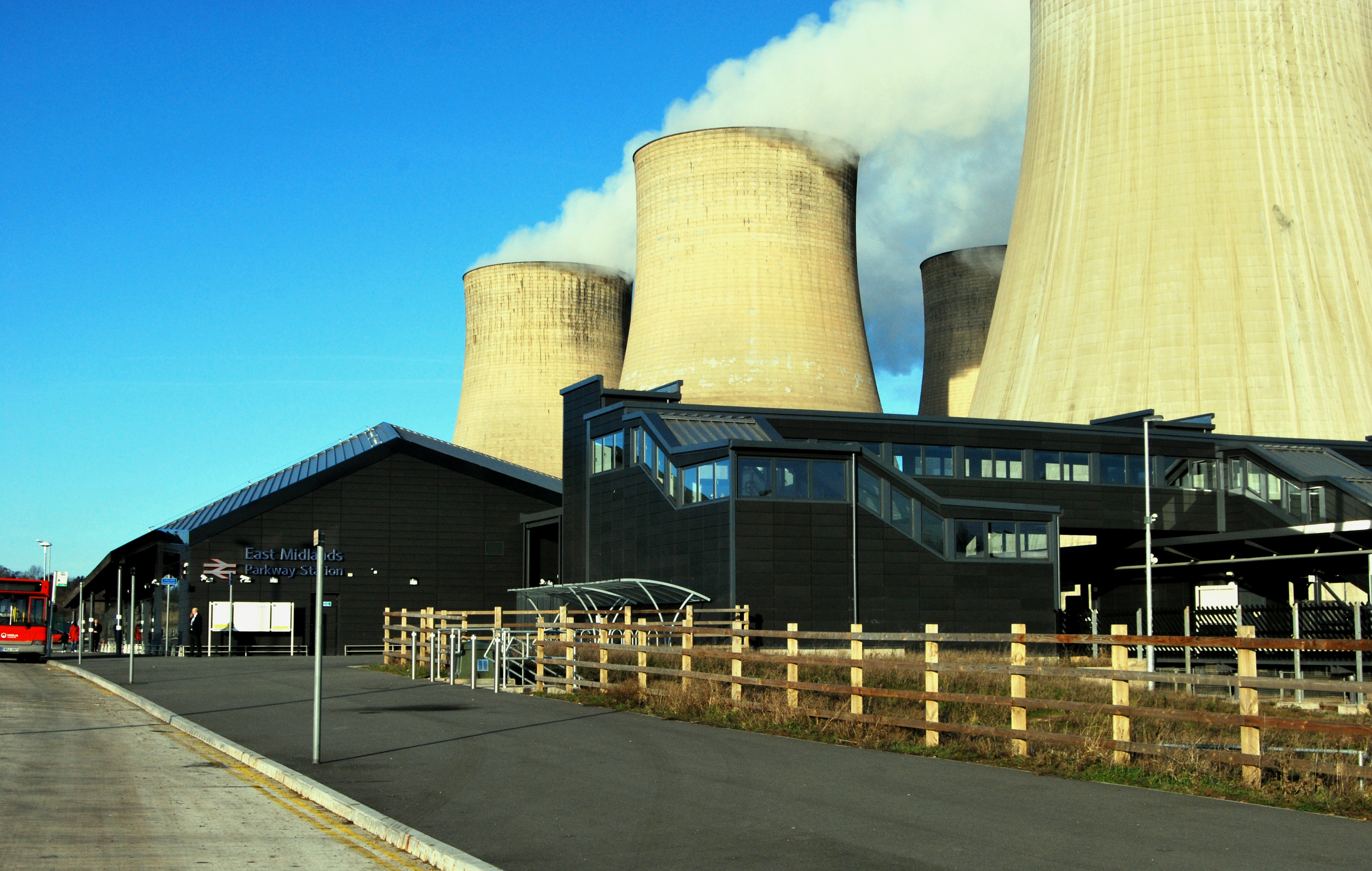 The East Midlands parkway railway Station with Ratcliffe on Soar power station in the background. Although it serves East Midlands Airport, which is in Leicestershire, the station is in Ratcliffe-on-Soar in Nottinghamshire.